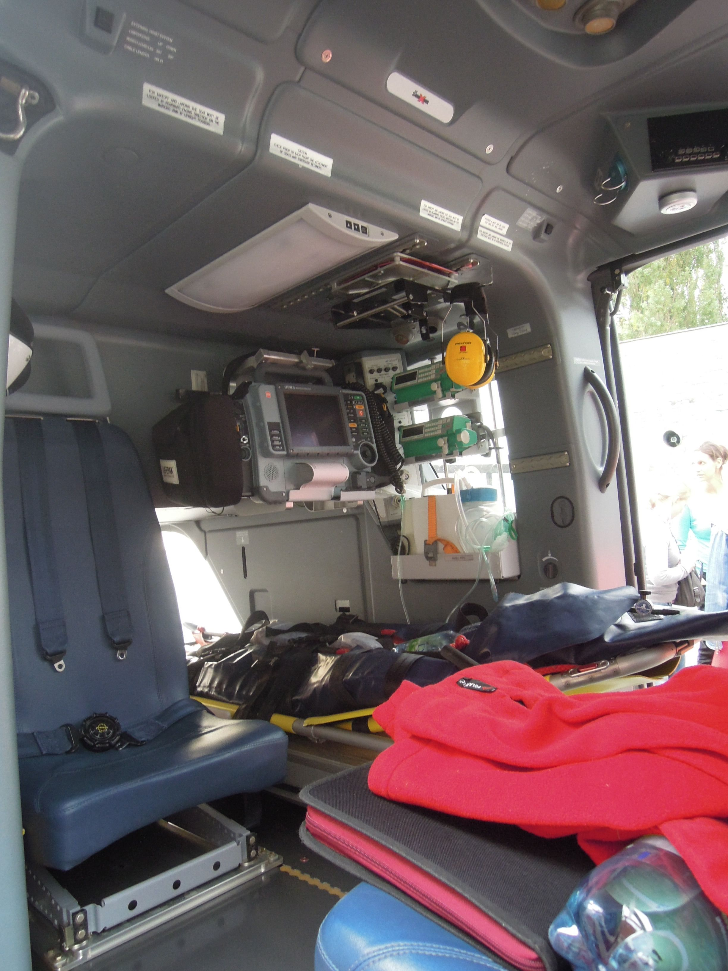 Ambulance equipment of HEMS helicopter Eurocopter EC135 T2+ OK-NIK in Brno, South Moravian Region, Czech Republic